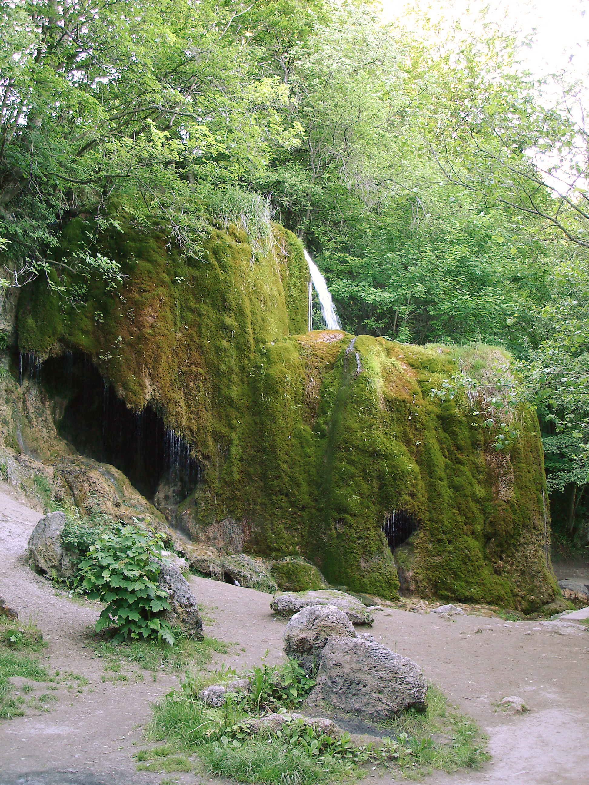 Growing, huge deposit of porous, stable and extremely lightweight limestone rock sediment, forming behind a Karstspring. When moss assimilates its carbon dioxide from calcium carbonate saturated spring water, part of the mineral precipitates chemically. Plant and mineral form to a crust, the plant continues growing on top of this. The basic chemical process is more or less activated depending on physical and chemical conditions of the water and the environment. Deposits of the Travertine terrace also created this formation after 1912, when the springs water course was altered, due to railway construction works.